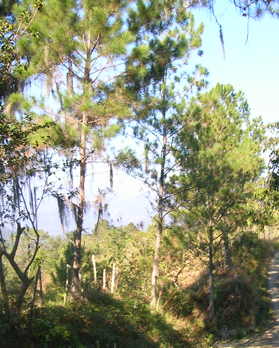 Young Hispaniolan Pines Pinus occidentalis, Jarabacoa, La Vega, Dominican Republic, Hispaniola 19°04'49"N 70°40'46"W, 745 m altitude.